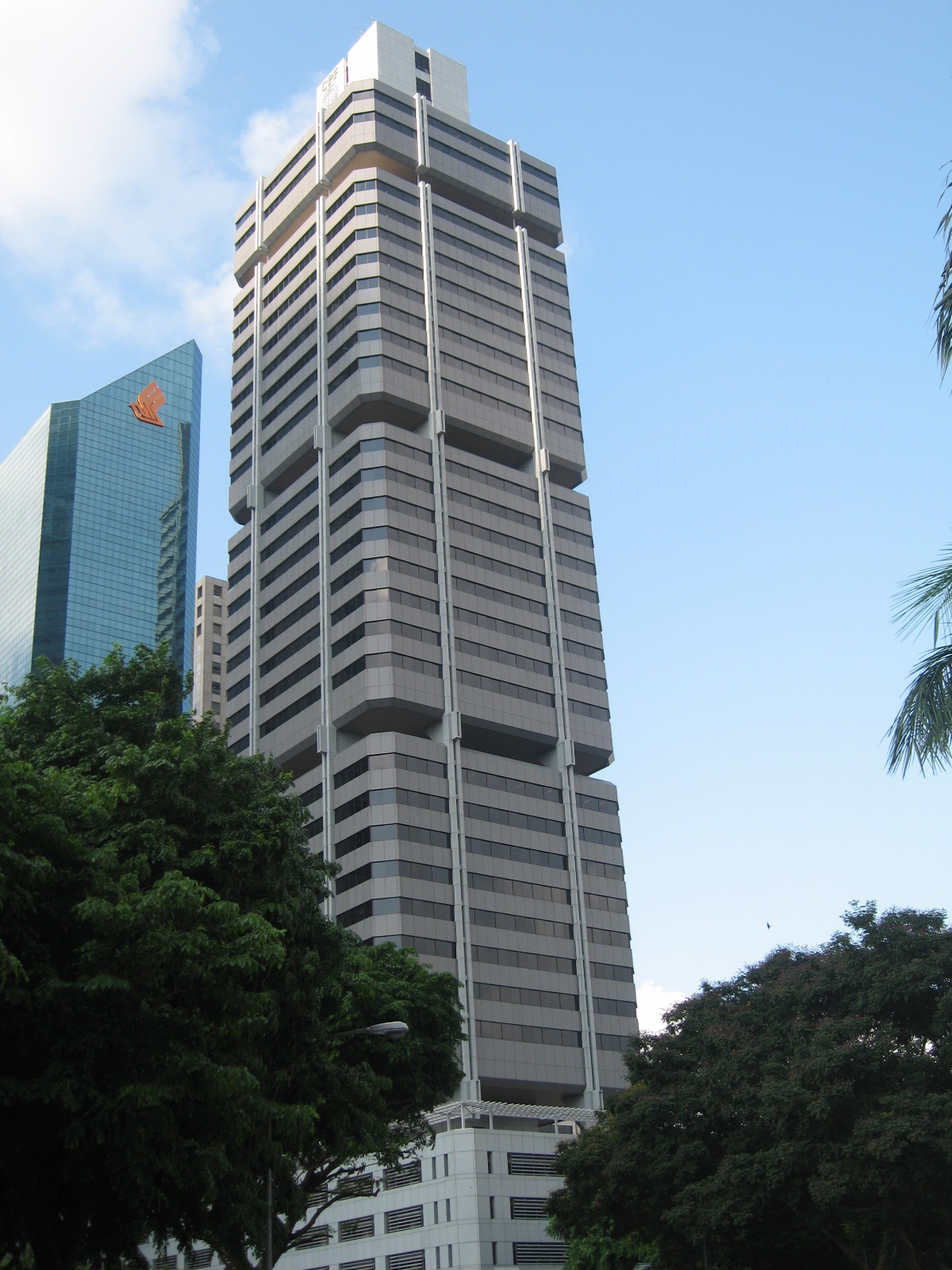 CPF Building.